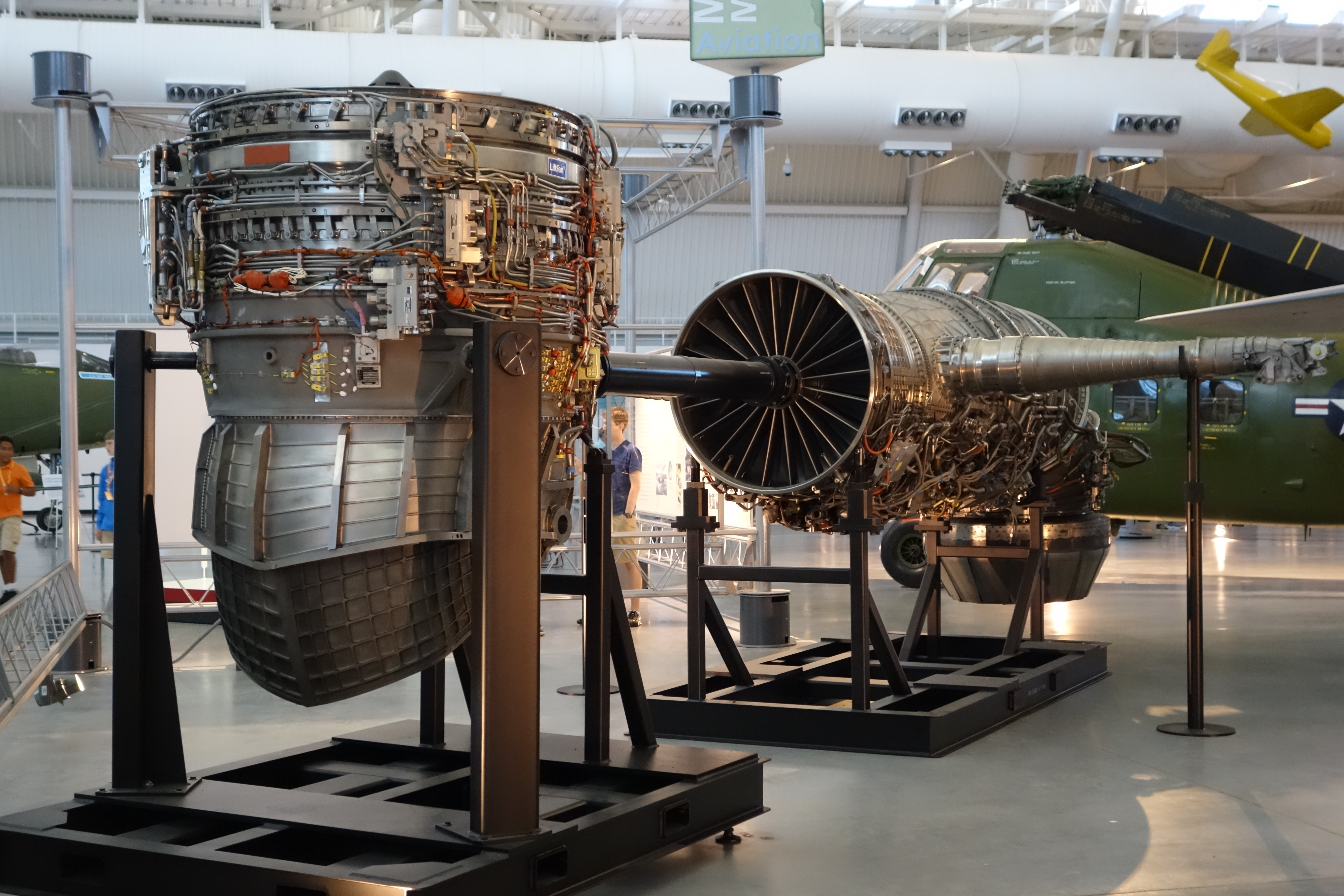 Pratt & Whitney JSF119-611 turbofan engine and lift fan for STOVL variant of the F-35 Joint Strike Fighter, on display at the National Air & Space Museum, Steven F. Udvar-Hazy Center